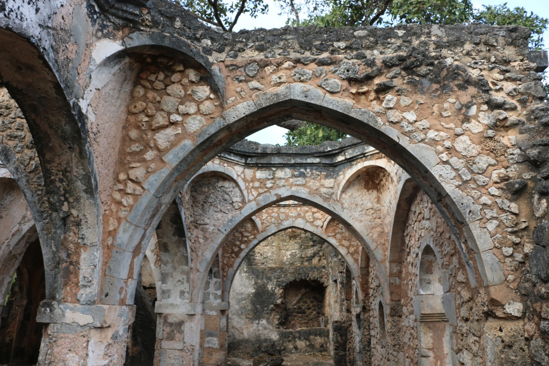 Interior view of the Great Mosque of Kilwa, Kilwa Kisiwani Ruins, Tanzania